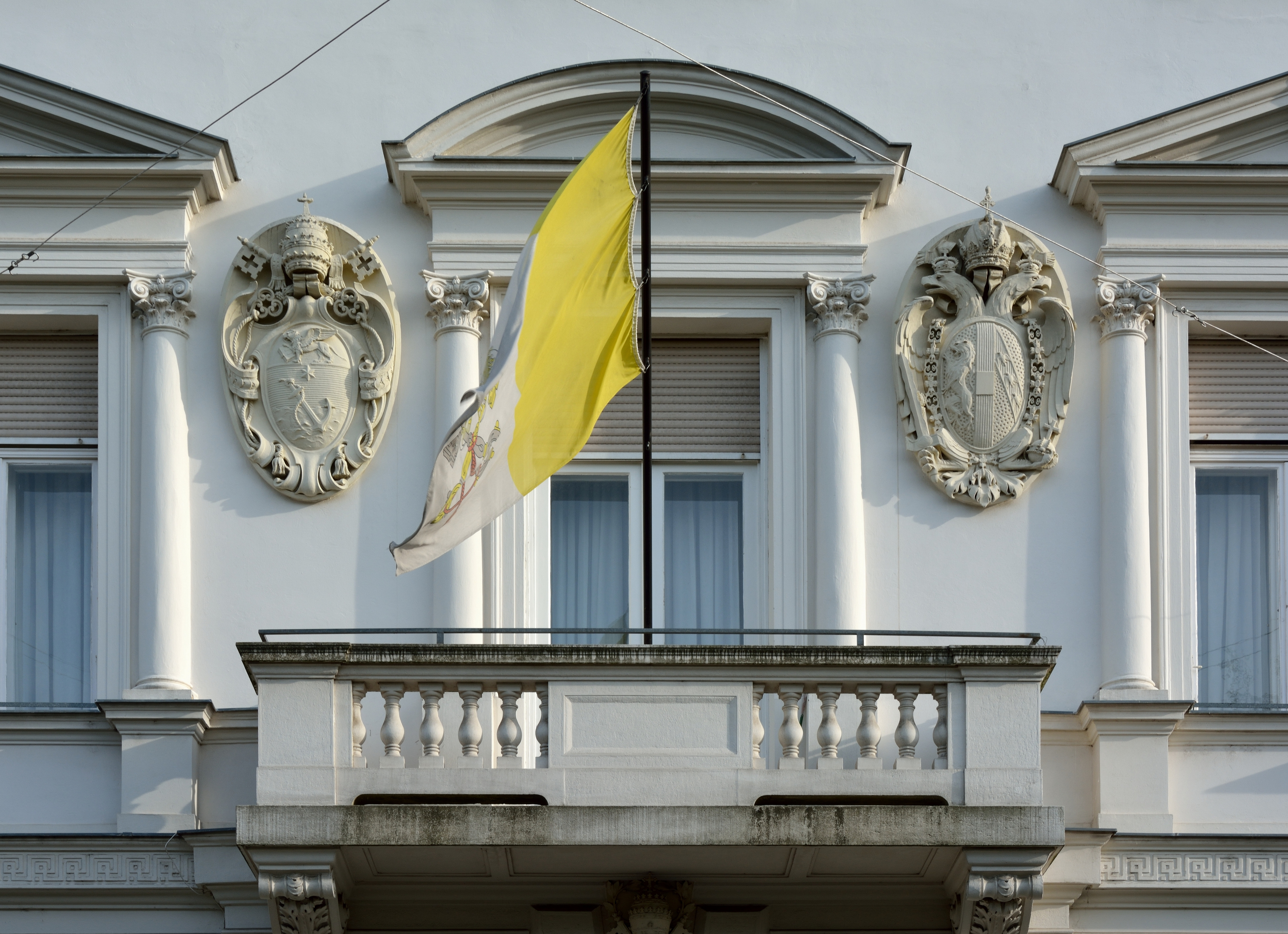 Palace of the Apostolic Nunciature, balcony and COA above entrance, Theresianumgasse 31, 4th district of Vienna